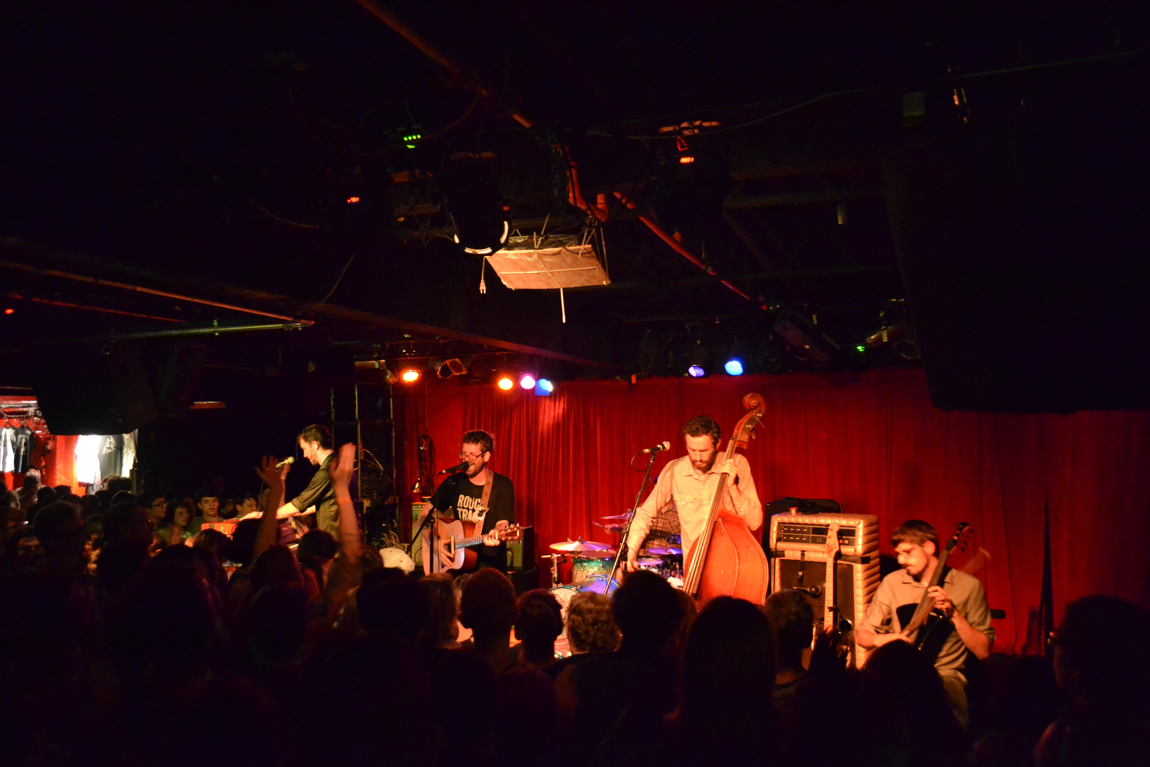 Andrew Jackson Jihad performing at the Grog Shop in Cleveland Heights, OH in June 2014